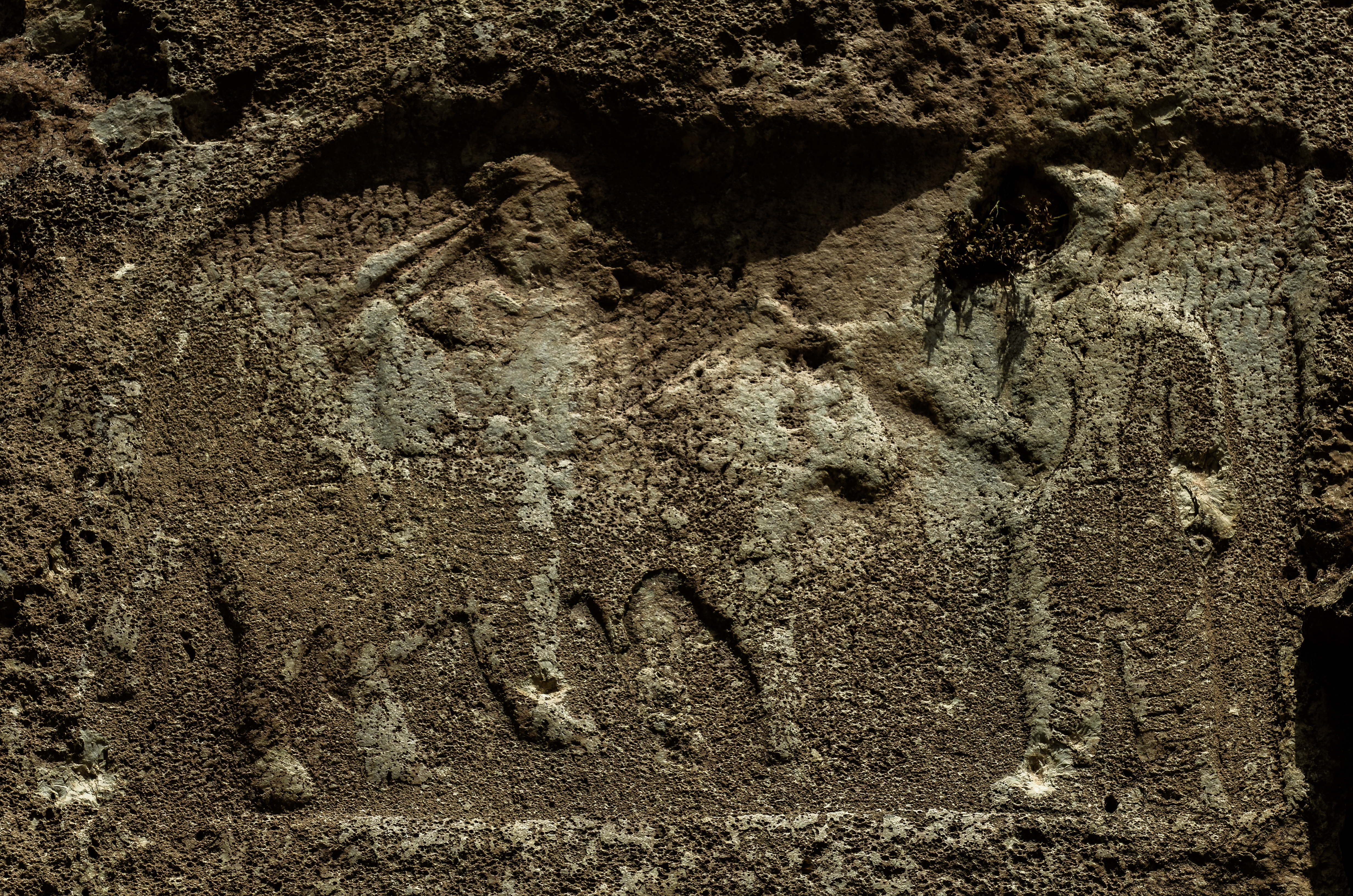 Anubanini Rock Relief_Sarpol Zahab_Kermanshah Province_Iran